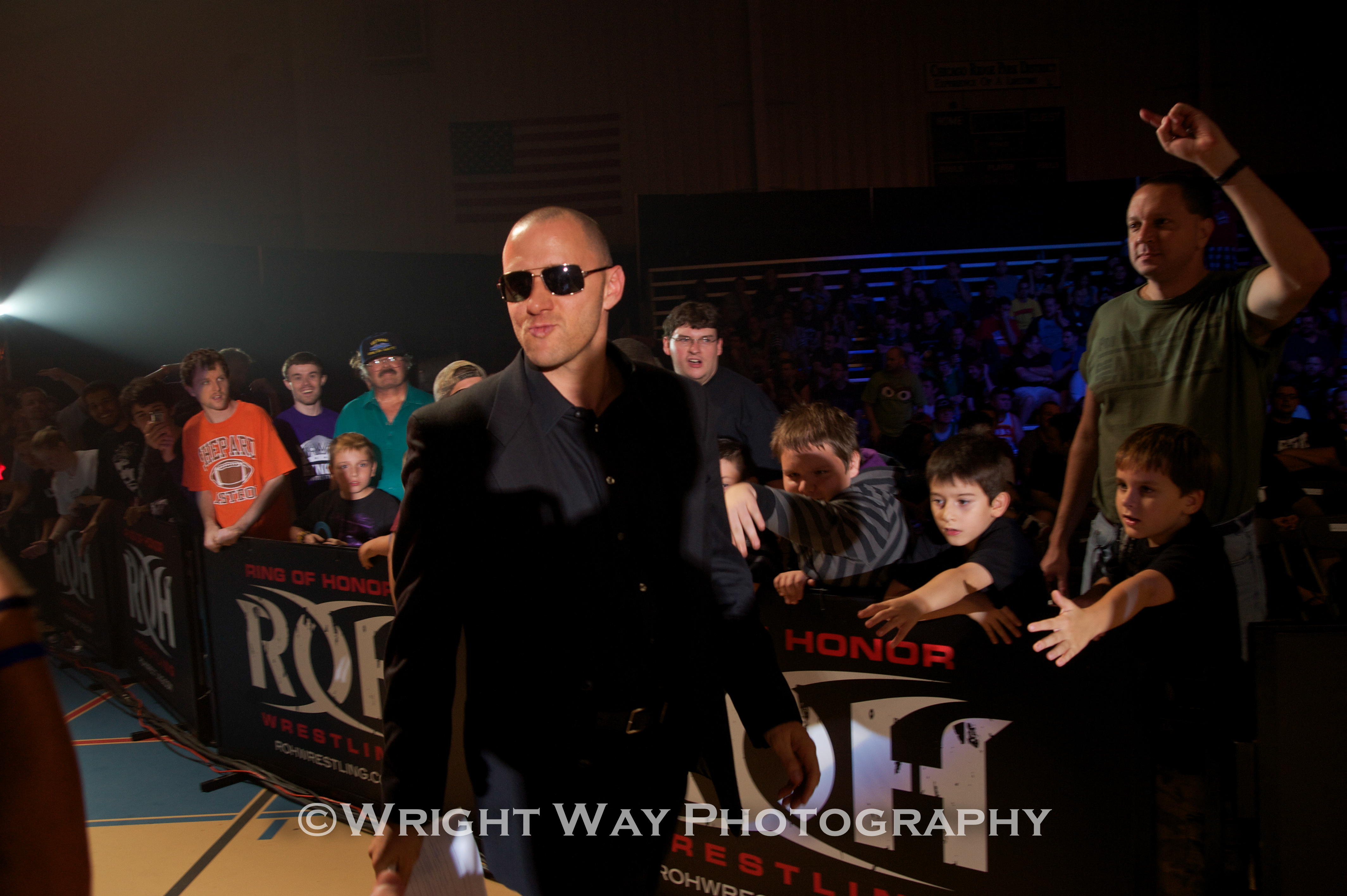 Nigel McGuinness at a Ring of Honor show on August 13, 2011.